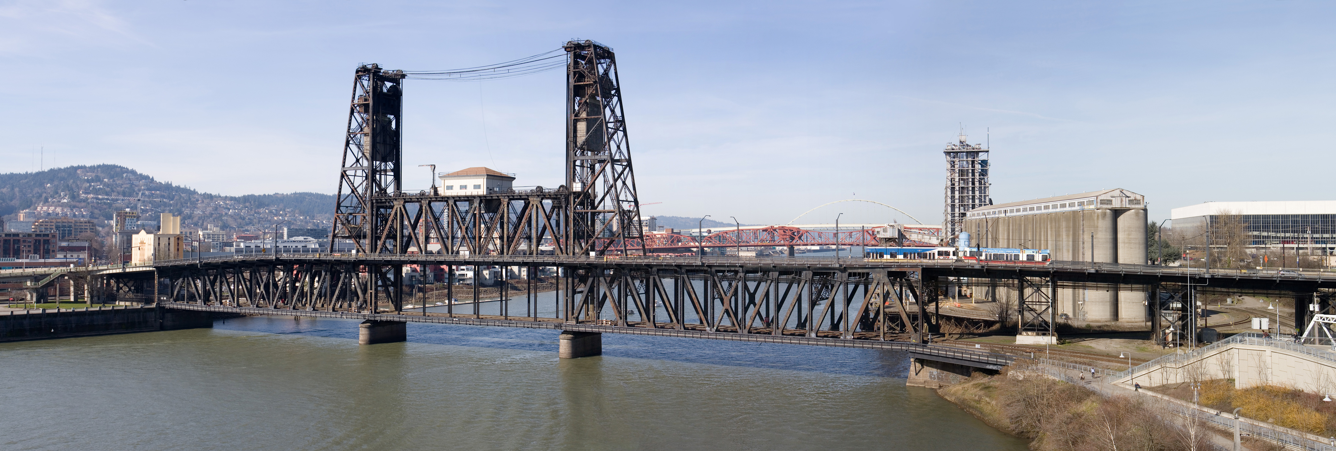 The Steel Bridge in Portland, Oregon. 7 segment panoramic image using Canon 5D w/ 70-200mm lens. (Note: The light rail train visible in this photo has been digitally altered in the process of splicing multiple images to create this panoramic view; the train's front end is missing, and the rear section appears shorter here than in reality.)